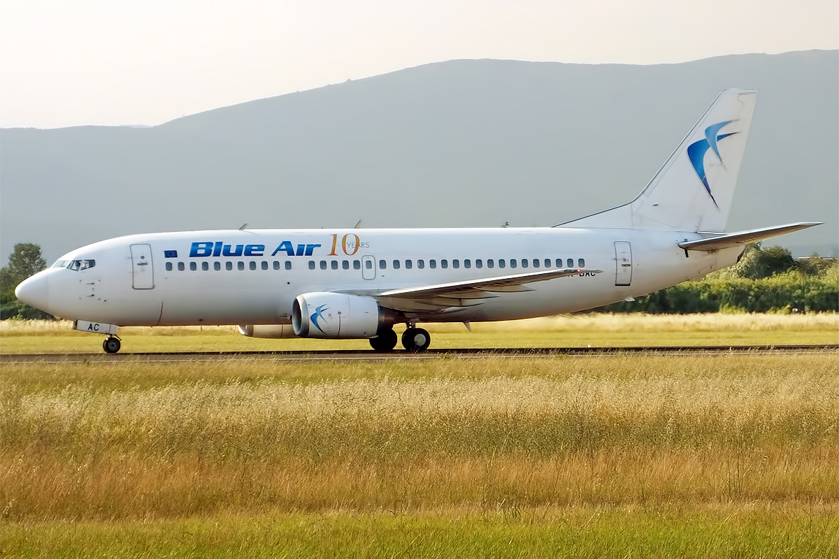 Blue Air Boeing 737-377, YR-BAC